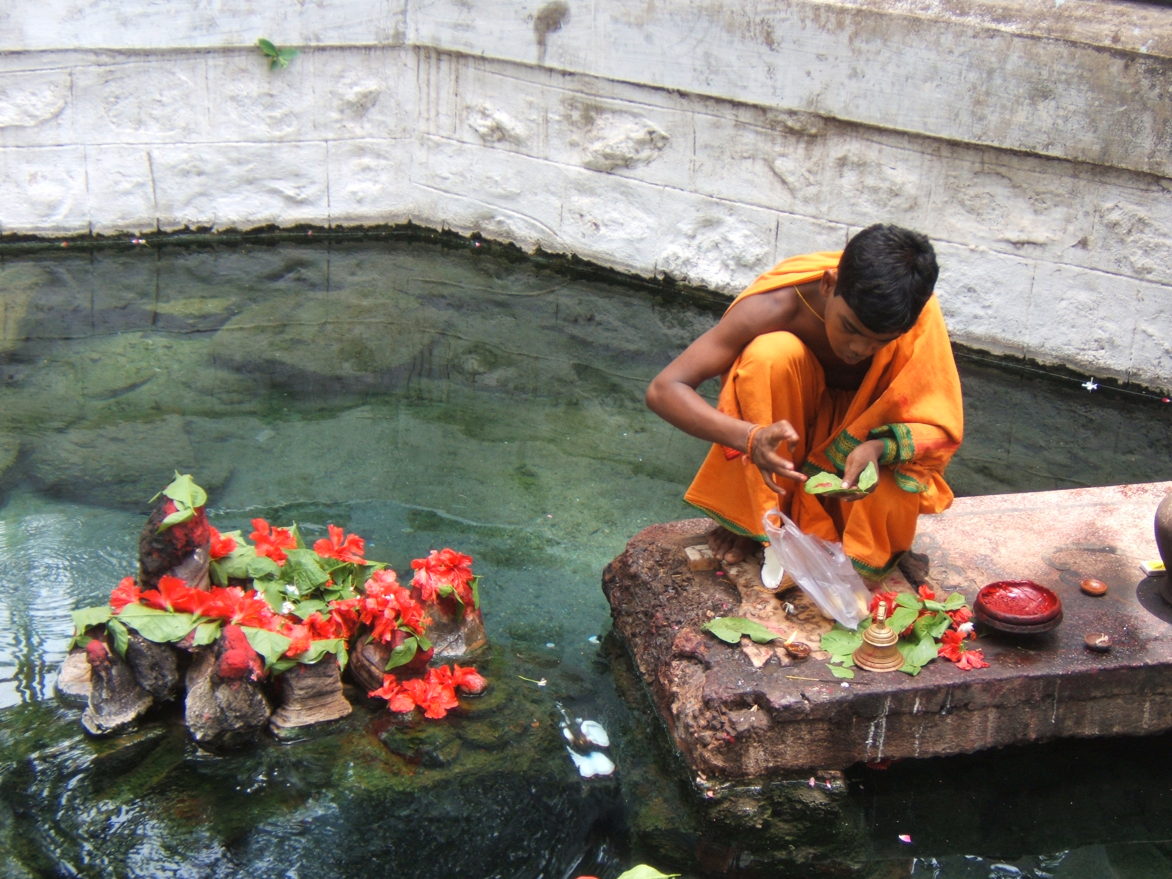 Brahmana shakta performing puja at Taptapani, Orissa